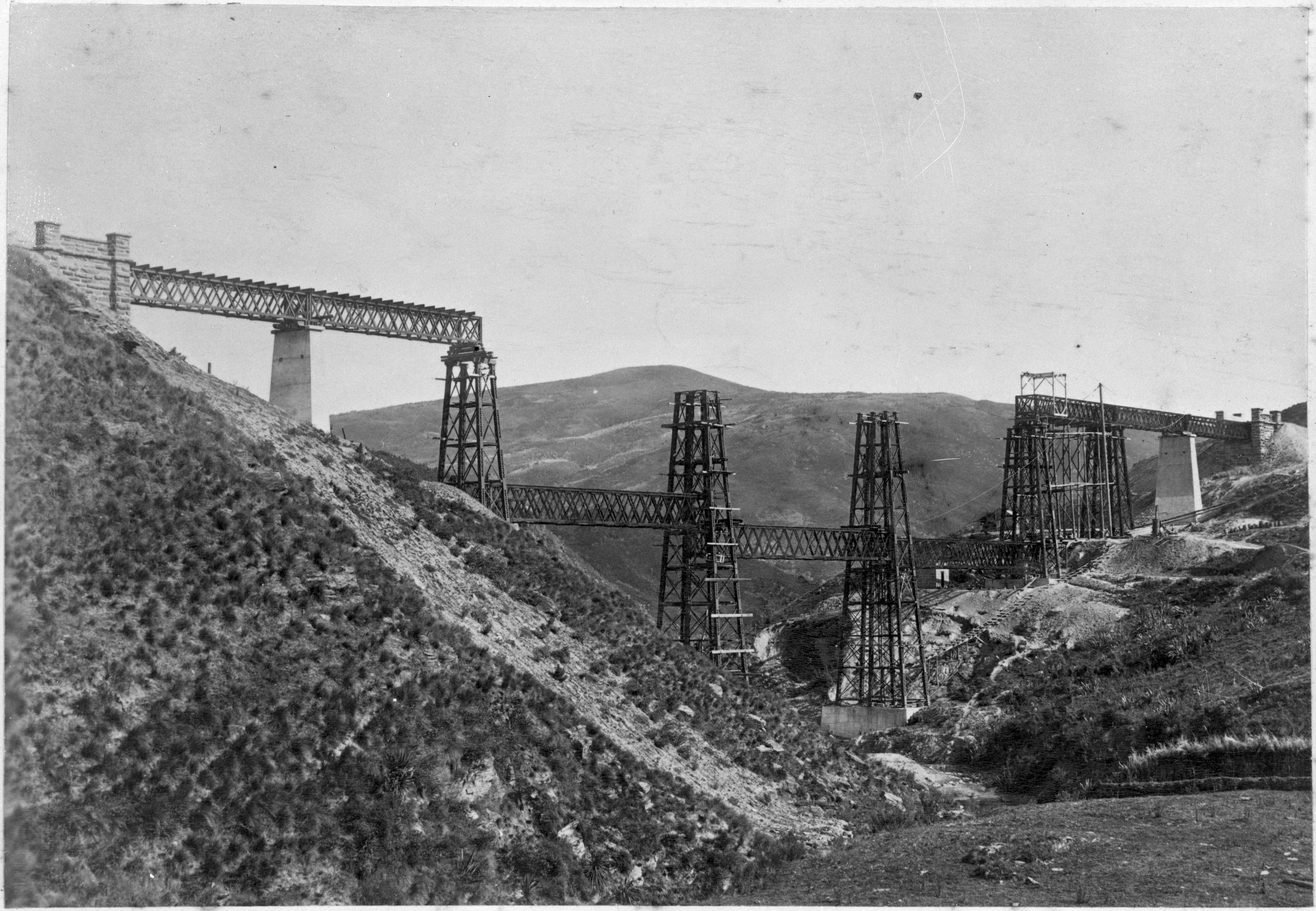 View of the Wingatui Viaduct under construction. Photograph taken by an unidentified photographer. This image is a film copy negative taken by Albert Percy Godber from an original print in Godber Album Vol 102, p 83 (PA1-f-025).